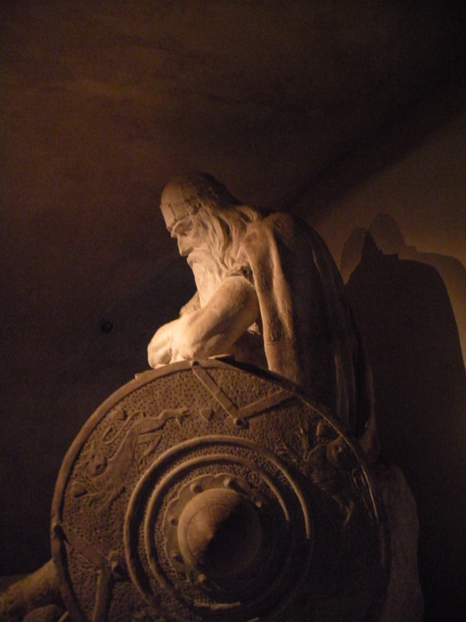 Ogier the Dane in Krongborg Castle